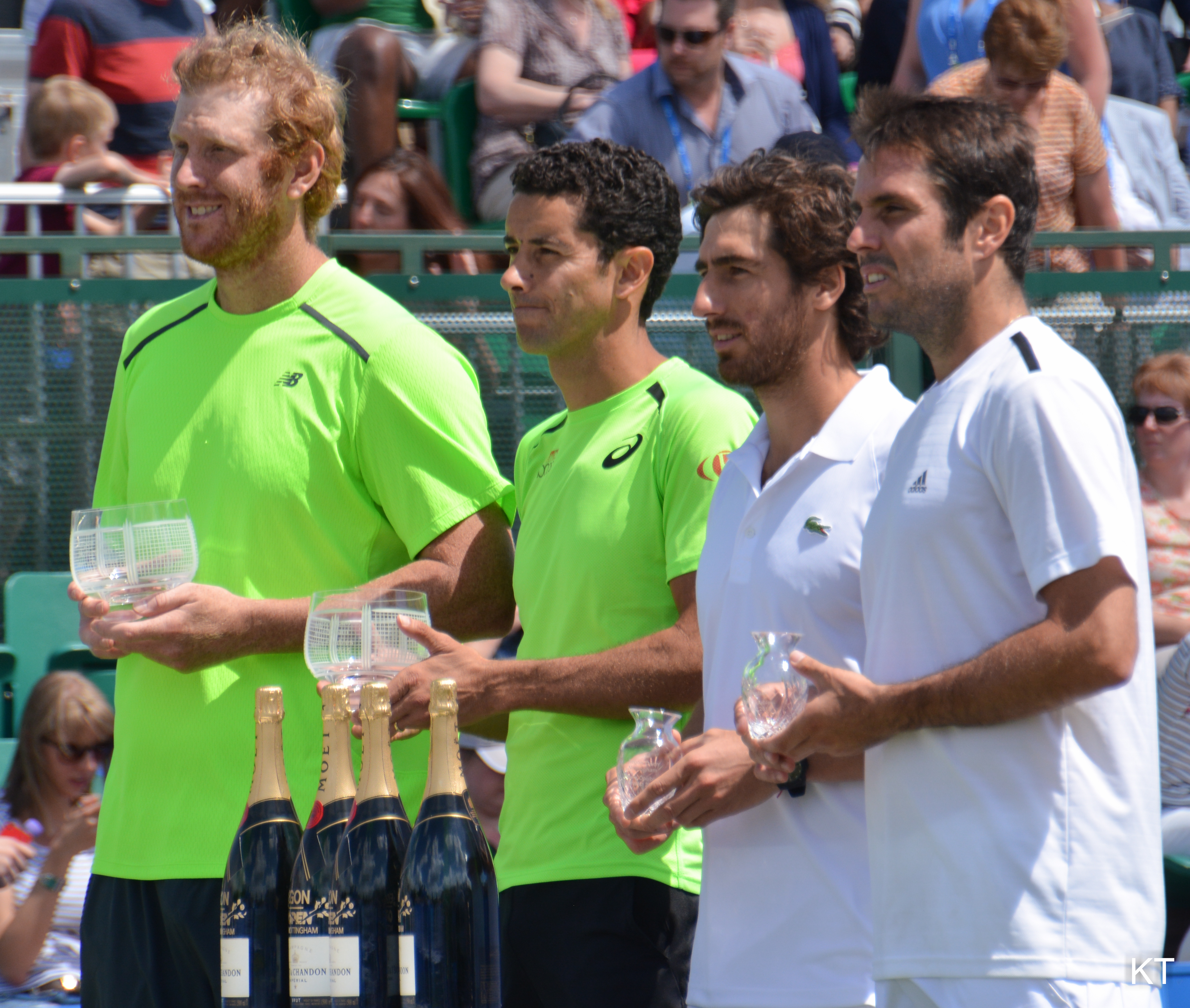 Winners Chris Guccione & Andre Sa, runners-up Pablo Cuevas & David Marrero. Aegon Open, Nottingham 2015.